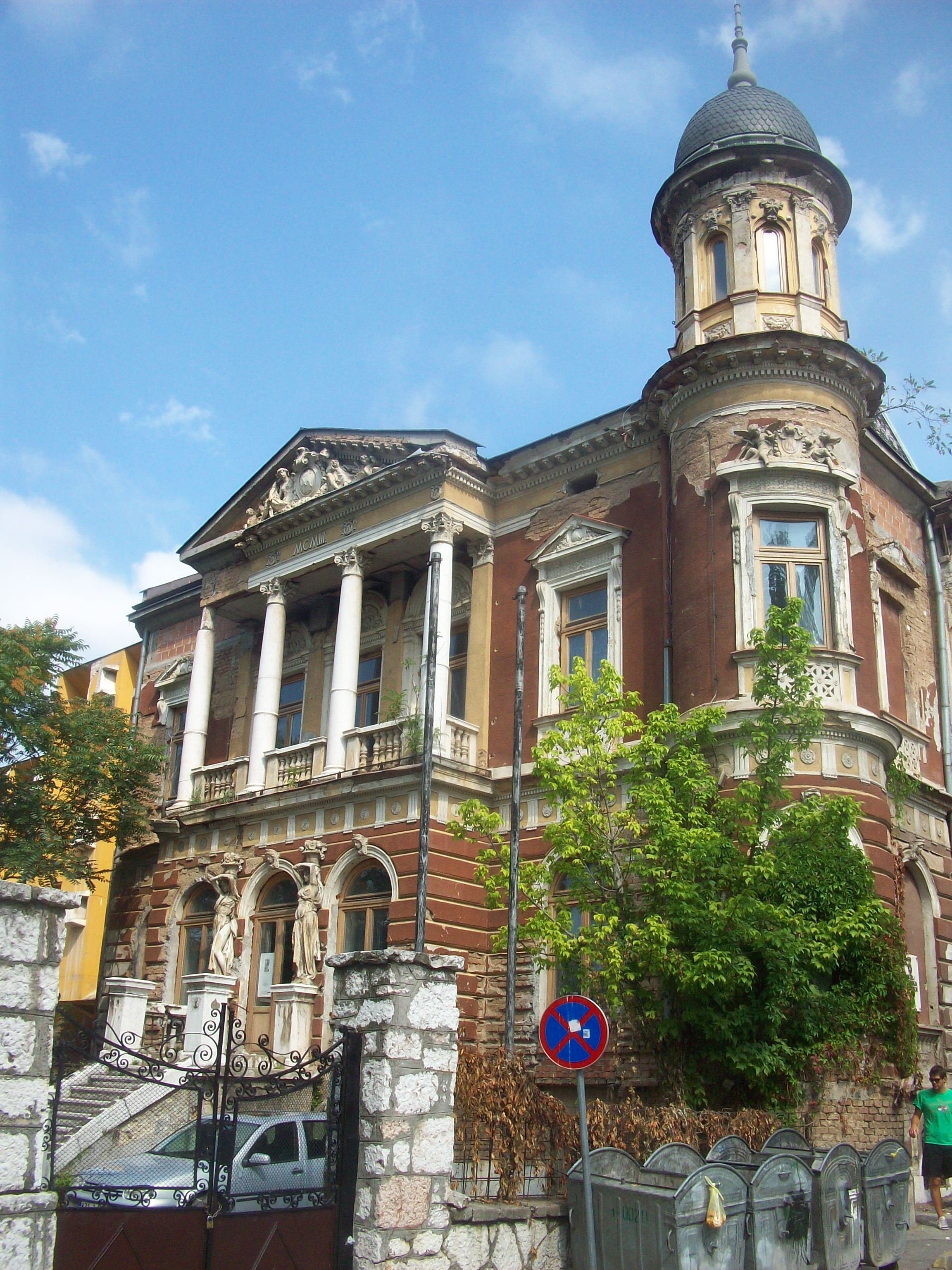 Sarajevo, Villa Mandic